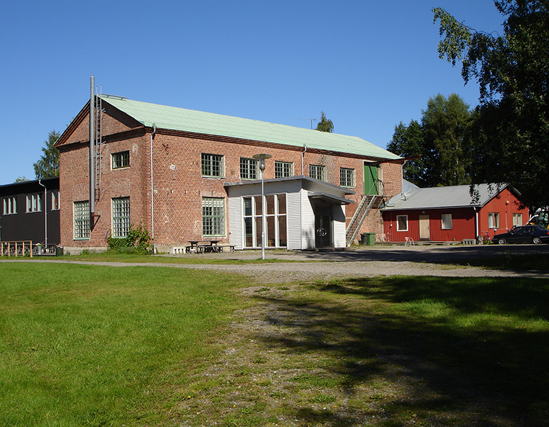 Fabriken in Gimonäs, Umeå. Former building for the steam engine of a sawmill built by Gimo Kol AB in 1917 and in use until 1939. The building is nowadays used for conferences and celebrations. If the photo is used outside of the Wikipedia project, it should be labelled "Photo: Gudrun Norstedt", or the equivalent text in the relevant language.